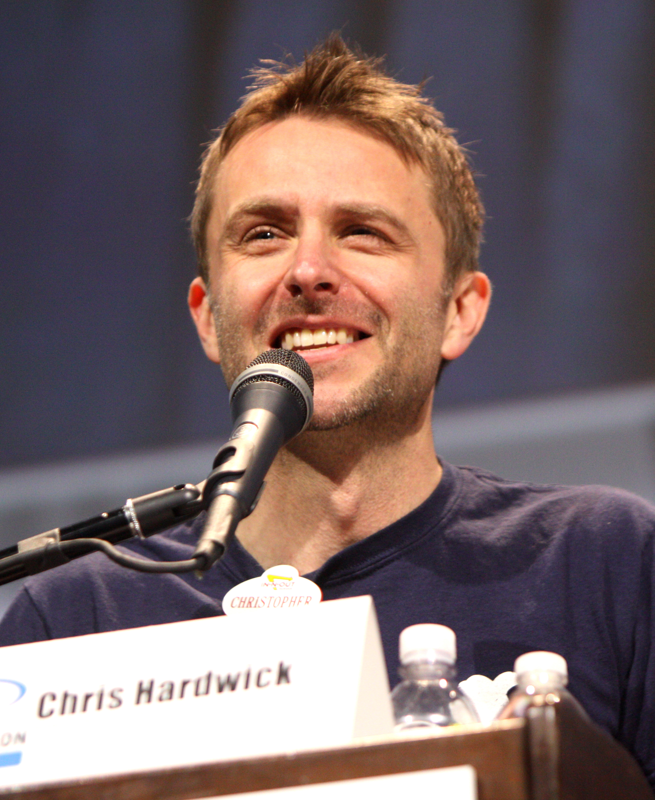 Chris Hardwick speaking at the 2013 WonderCon in Anaheim, California on March 31, 2013.